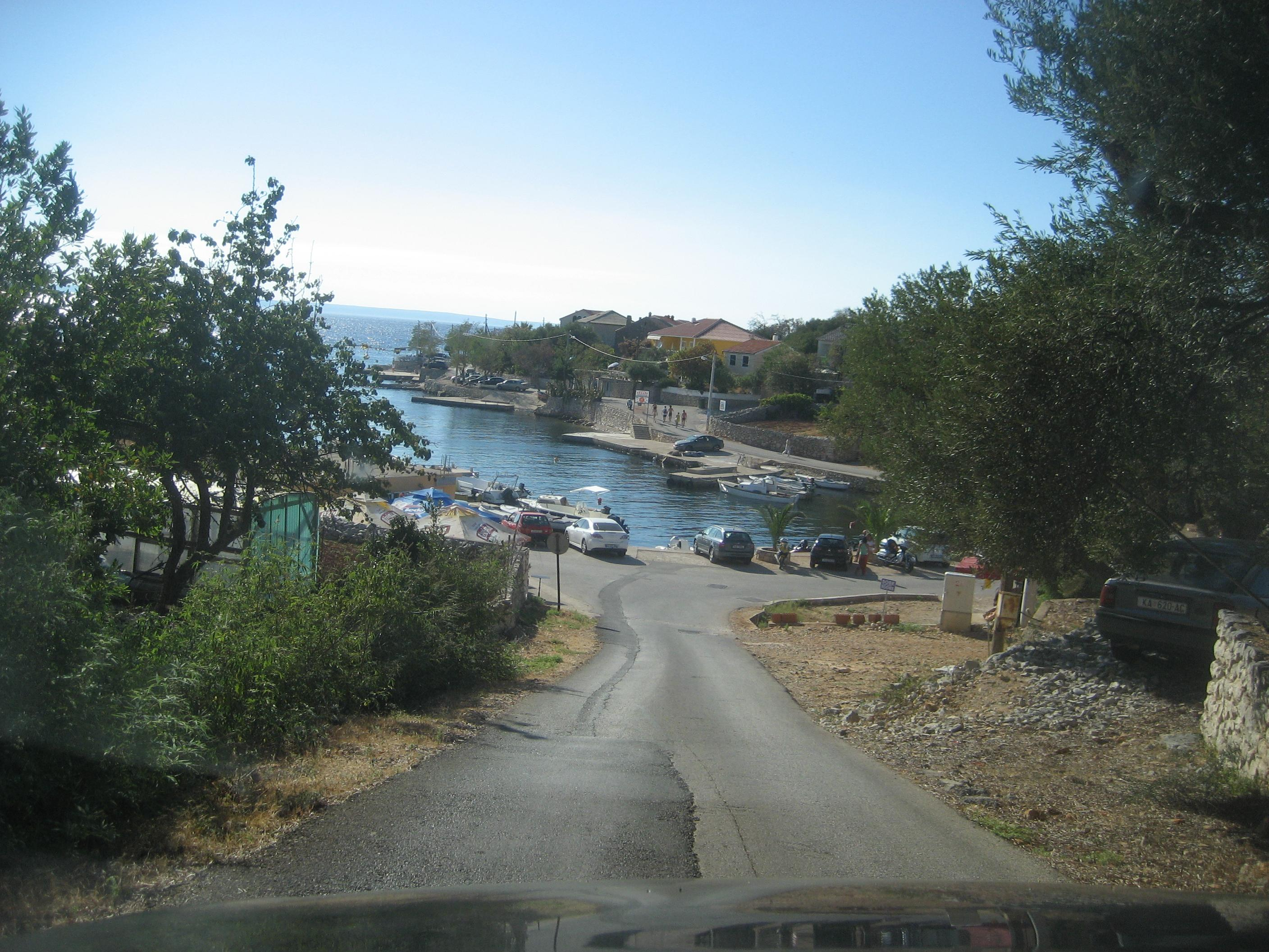 Lun, Island of Pag